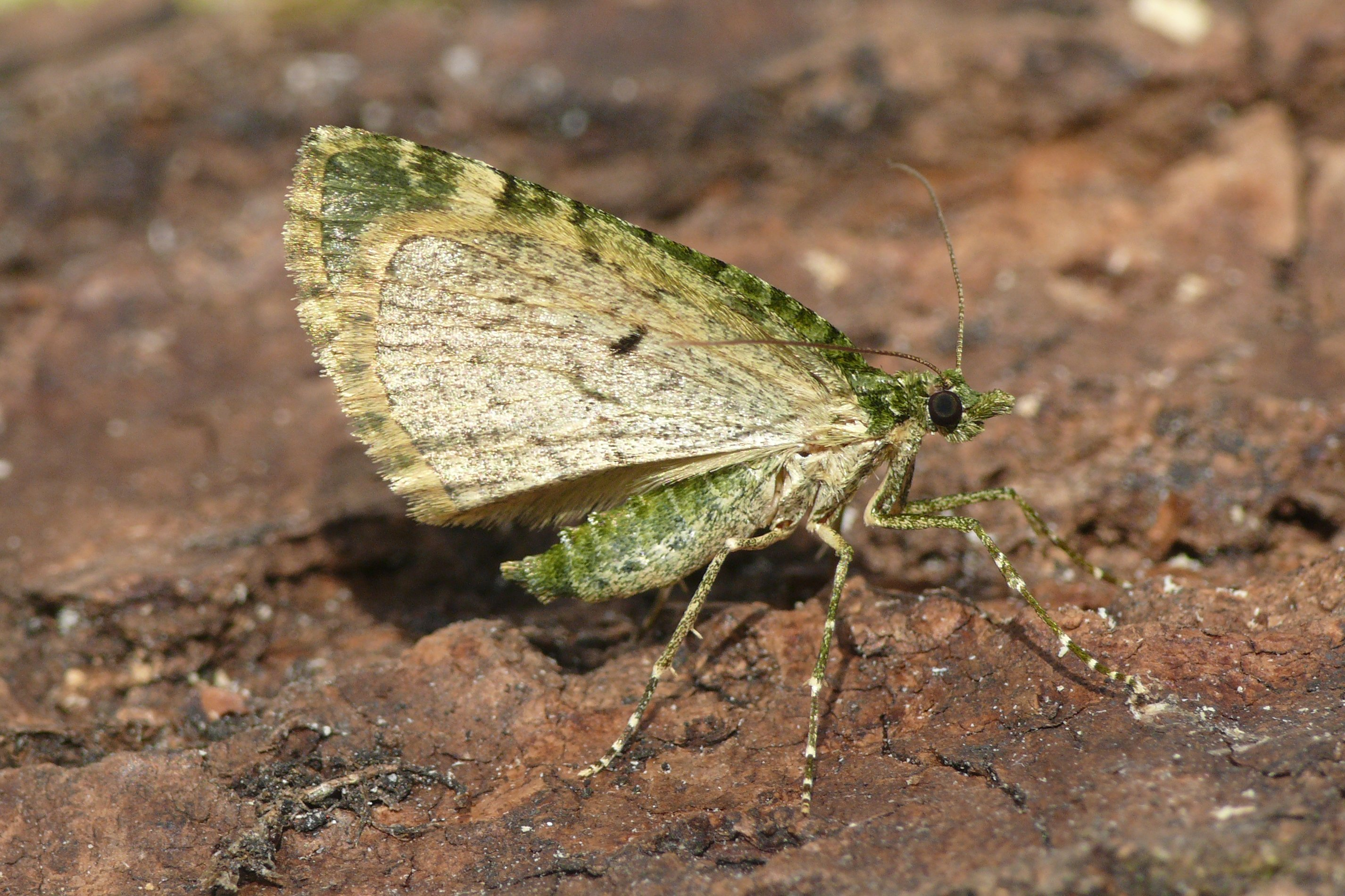 Red-green Carpet (Chloroclysta siterata), Poing, Bavaria Germany